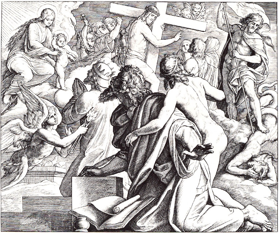 Woodcut for "Die Bibel in Bildern", 1860.